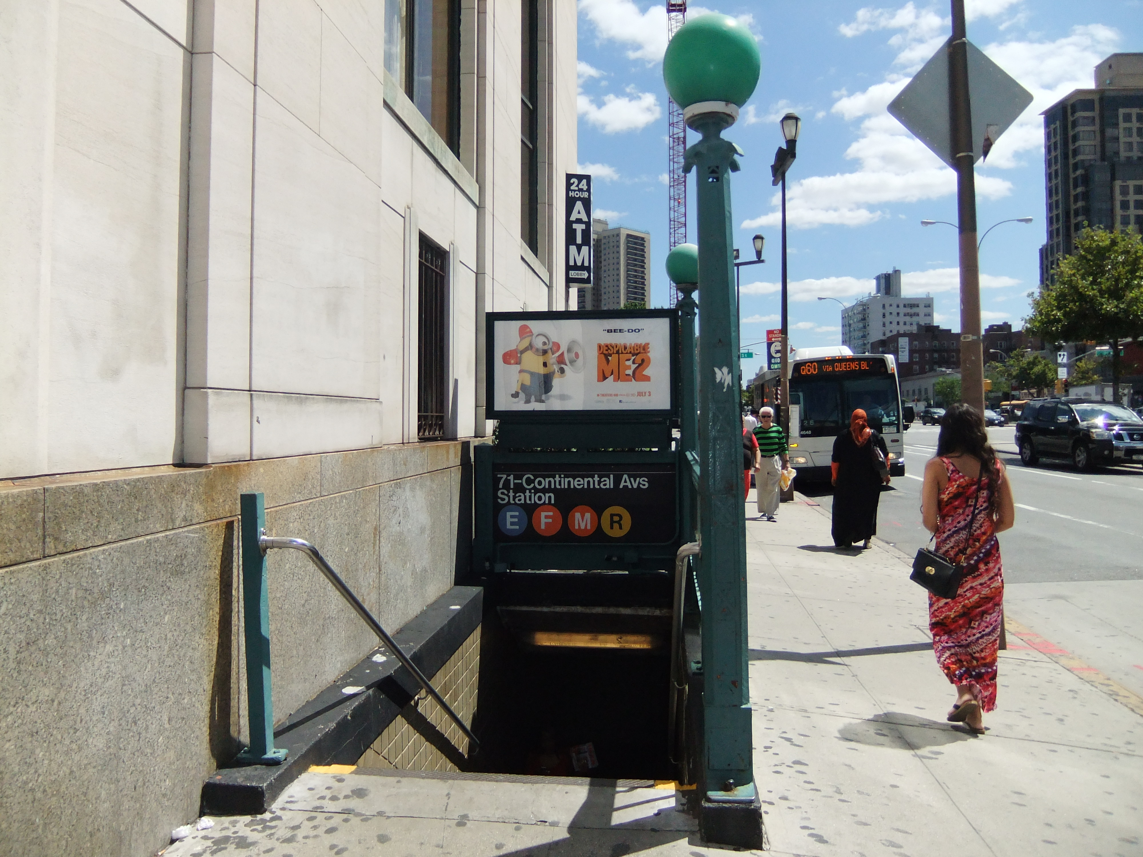 Stair to the Forest Hills-71 Avenue station.